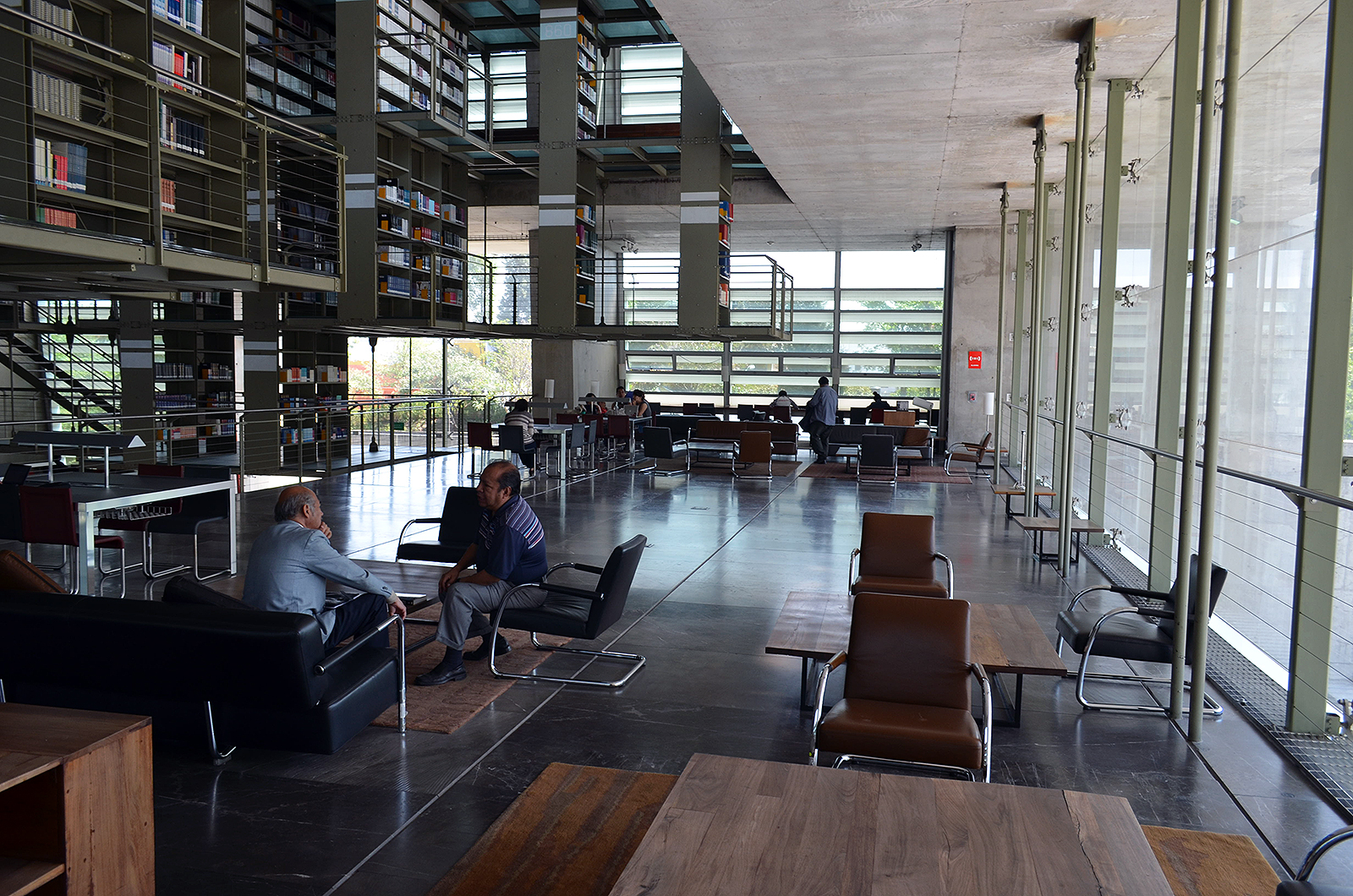 The library is located in downtown Delegación Cuauhtémoc at the Buenavista train station where the metro, suburban train, and metrobus meet. It is adorned by several sculptures by Mexican artists, including Gabriel Orozco's Ballena (Whale), prominently located at the centre of the building.